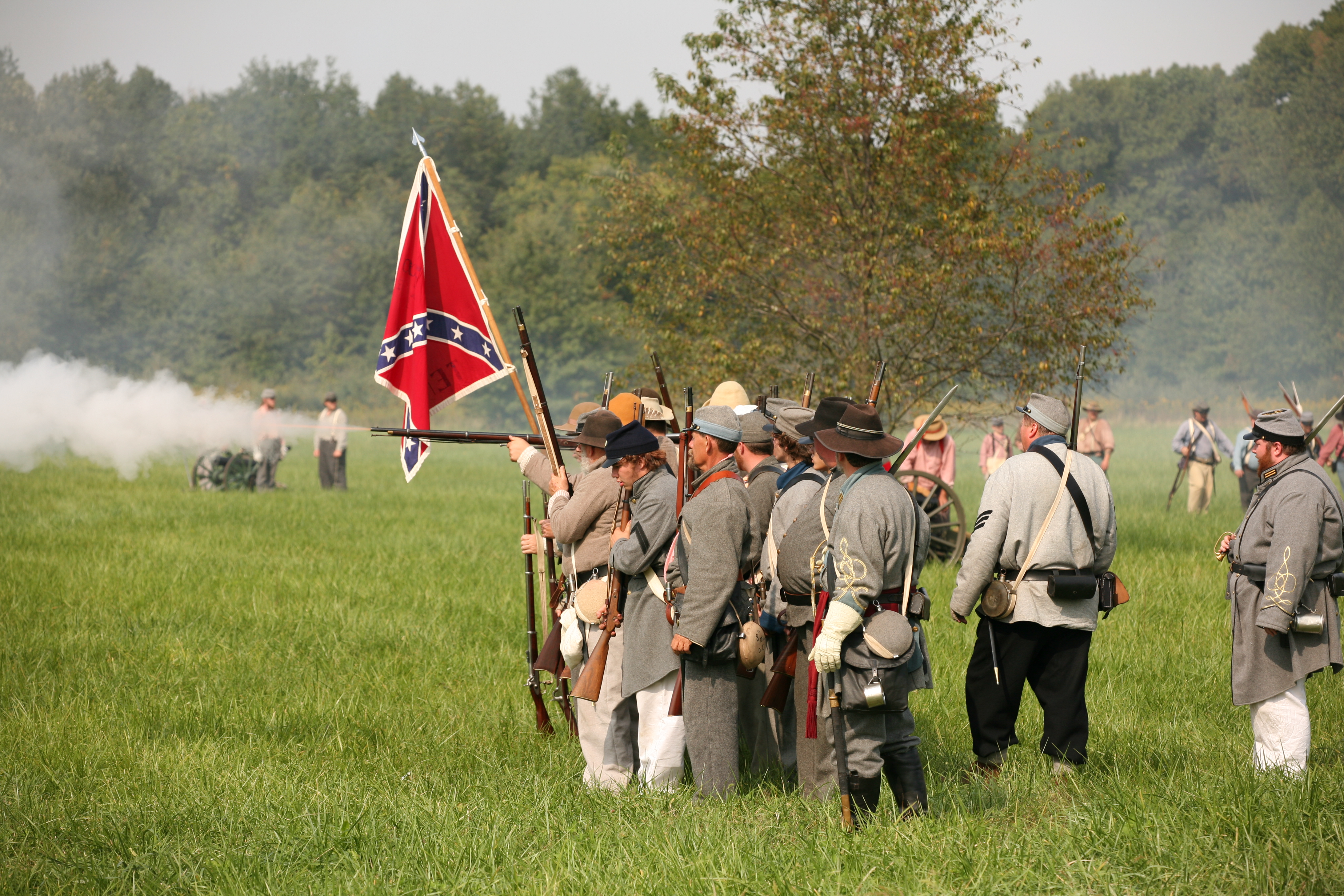 Civil war reenactment at Kennekuk County Park, near Danville, Illinois